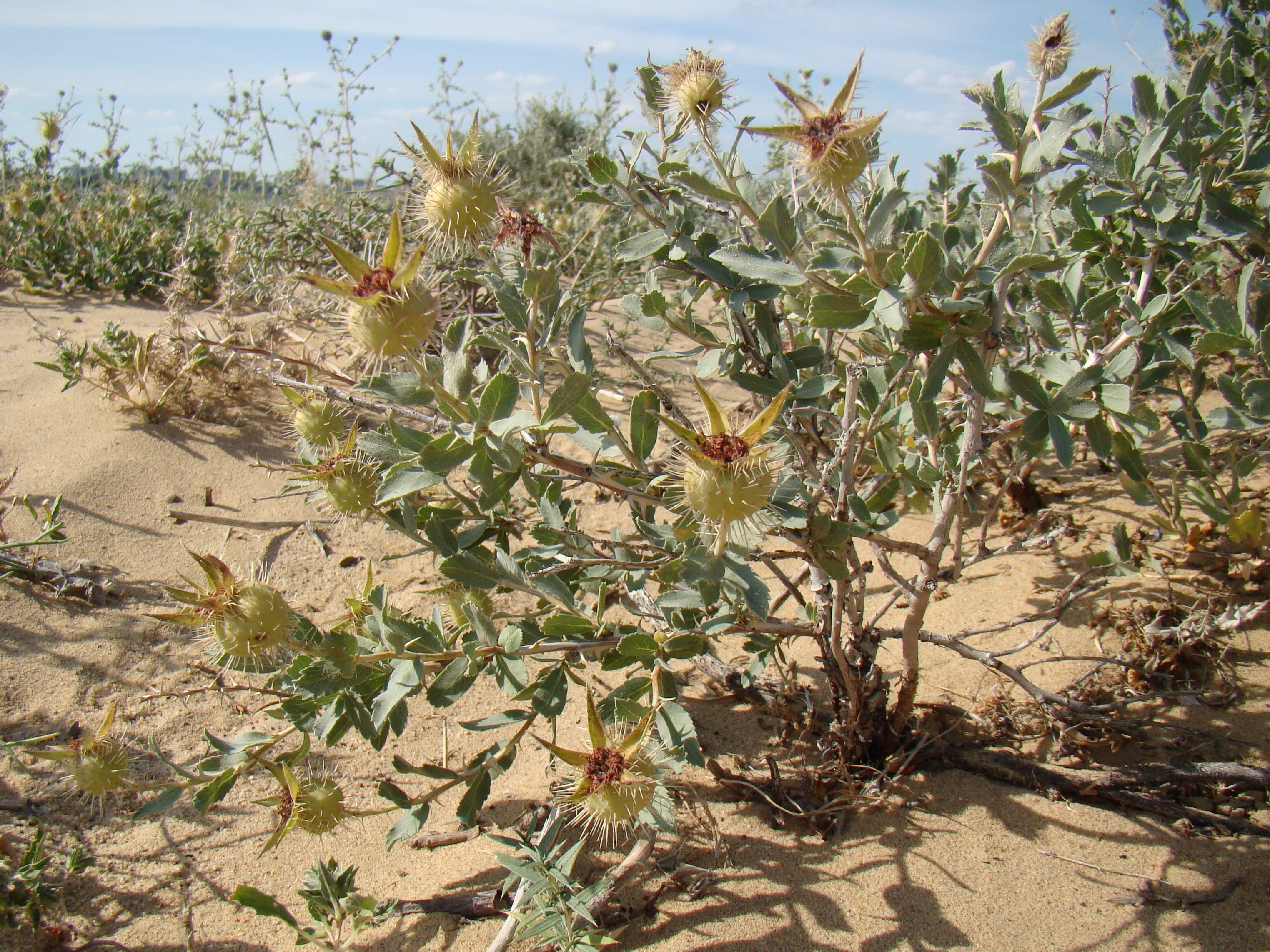 Hulthemia Persica (Rosa persica). Baikonur, Kazakhstan.